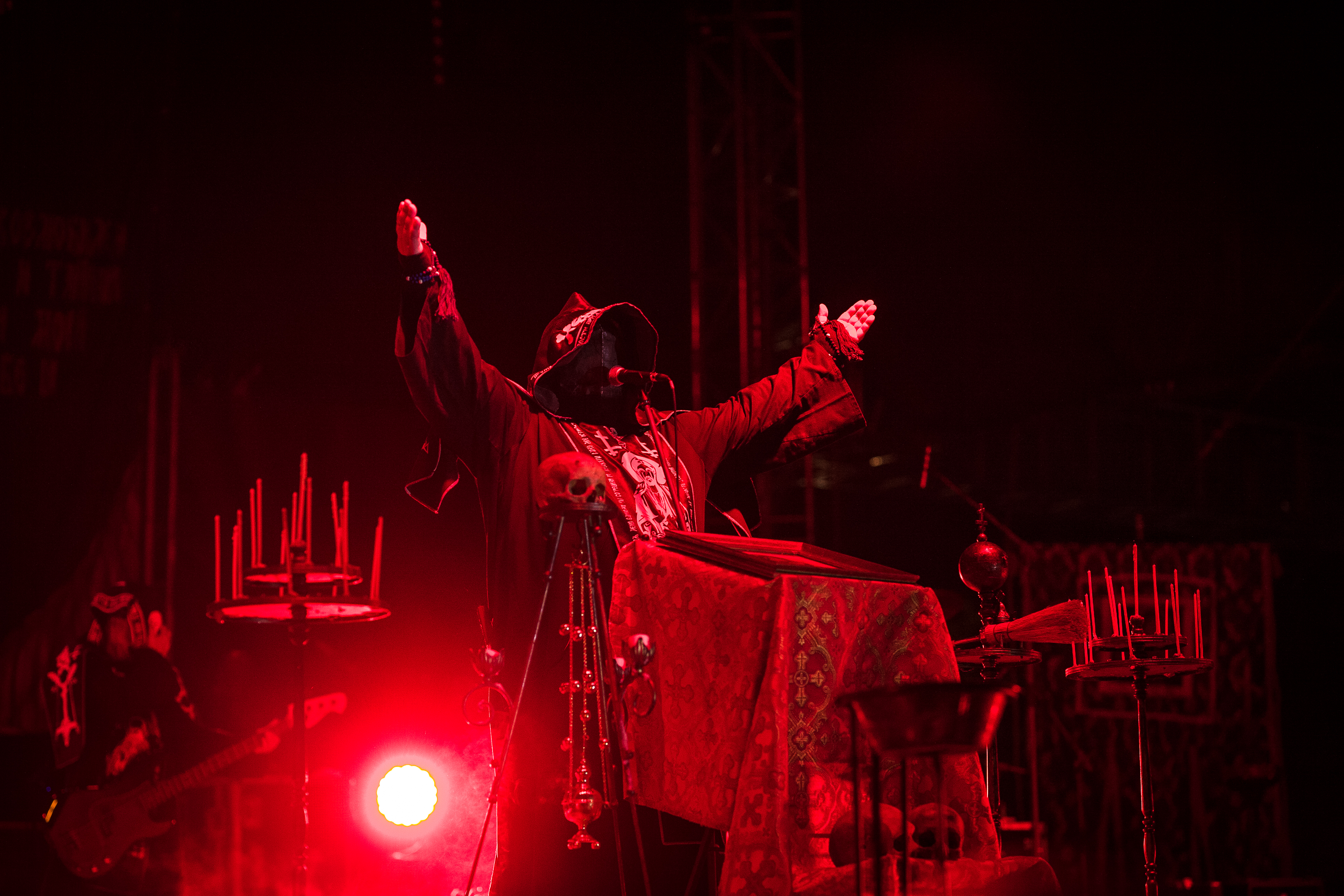 Batushka during the concert at the Brutal Assault 2017 festival.